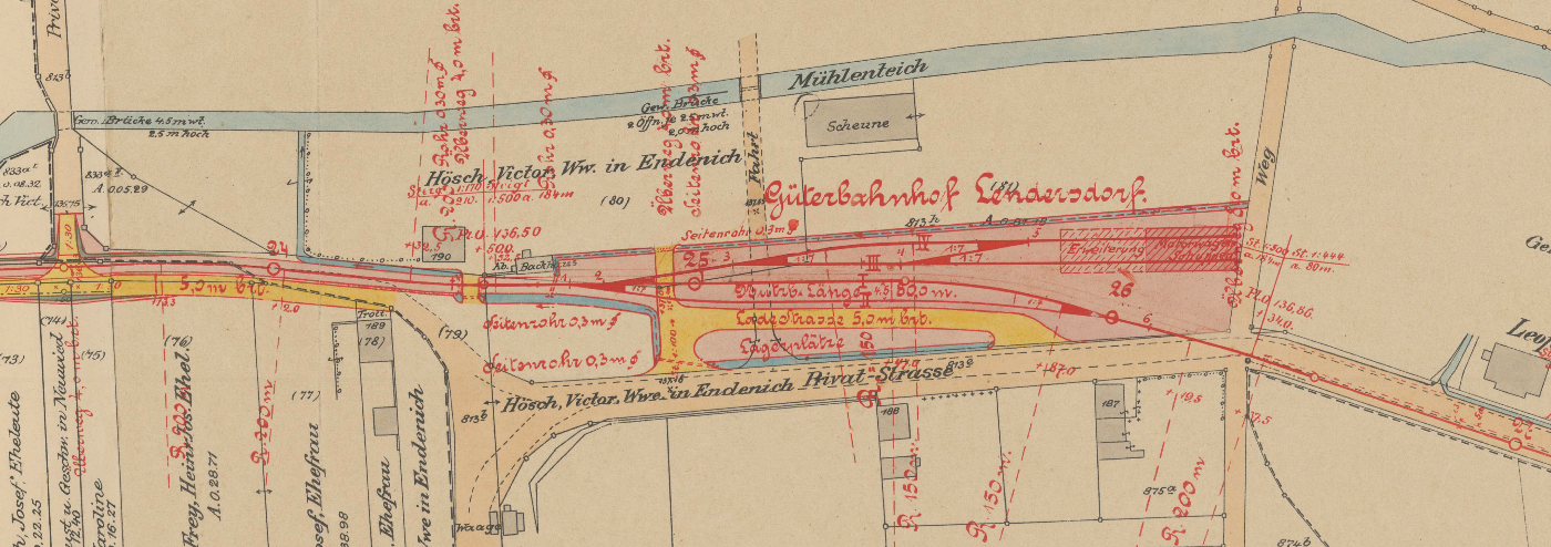 Plan of Lendersdorf Freight Station of Dürener Kreisbahn